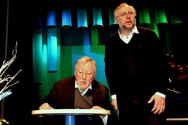 Vytautas Landsbergis in Sanok